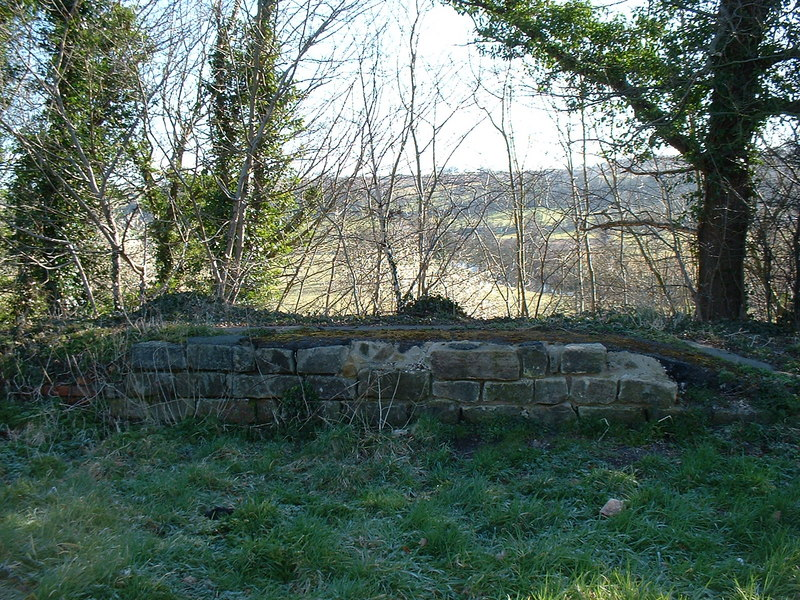 Duffield Castle Scant remains of a Norman Castle just off the busy A6.